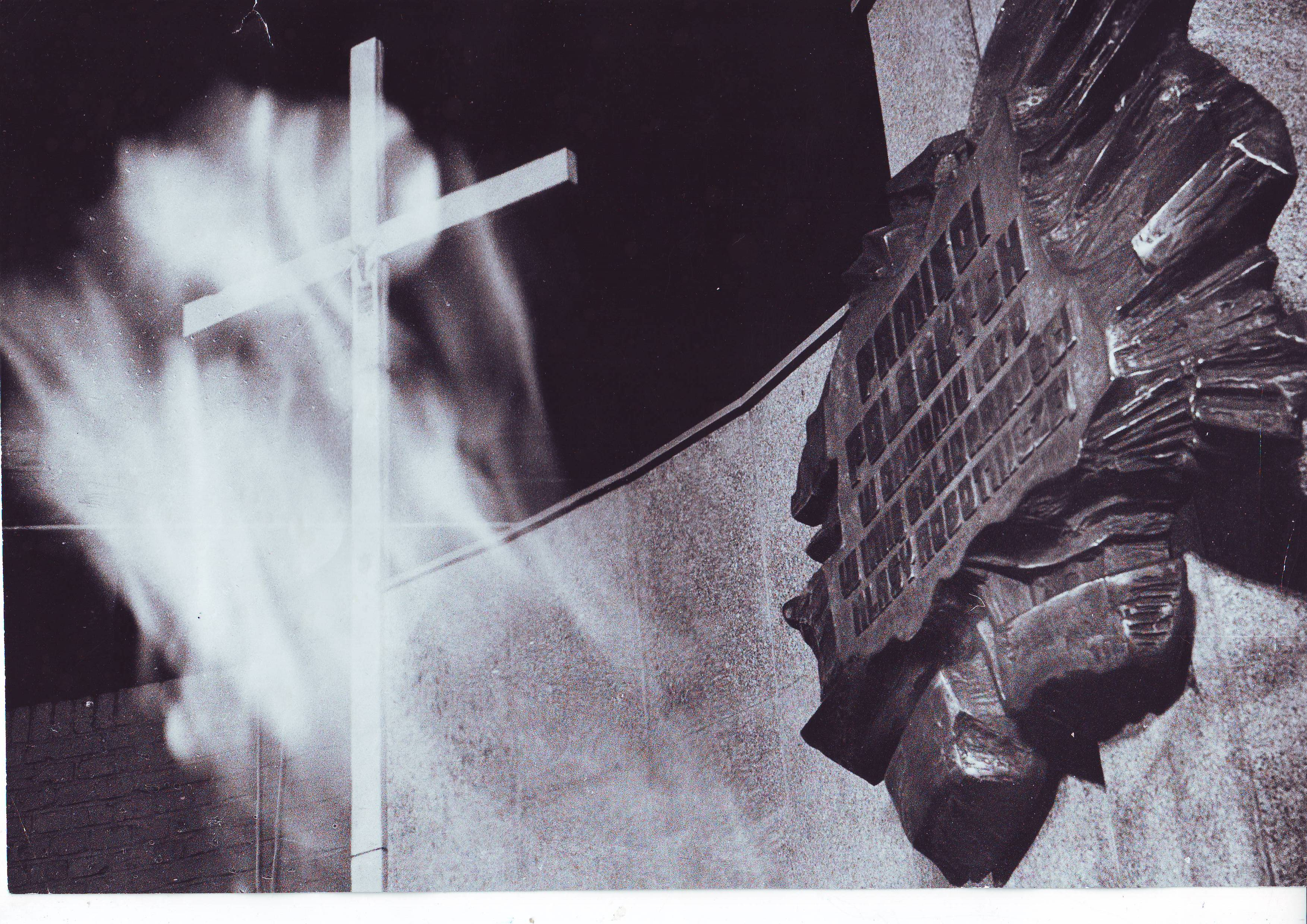 Commemorative tablet honoring victims of December 1970 crisis in Poland. Szczecin, Shipyard entry.